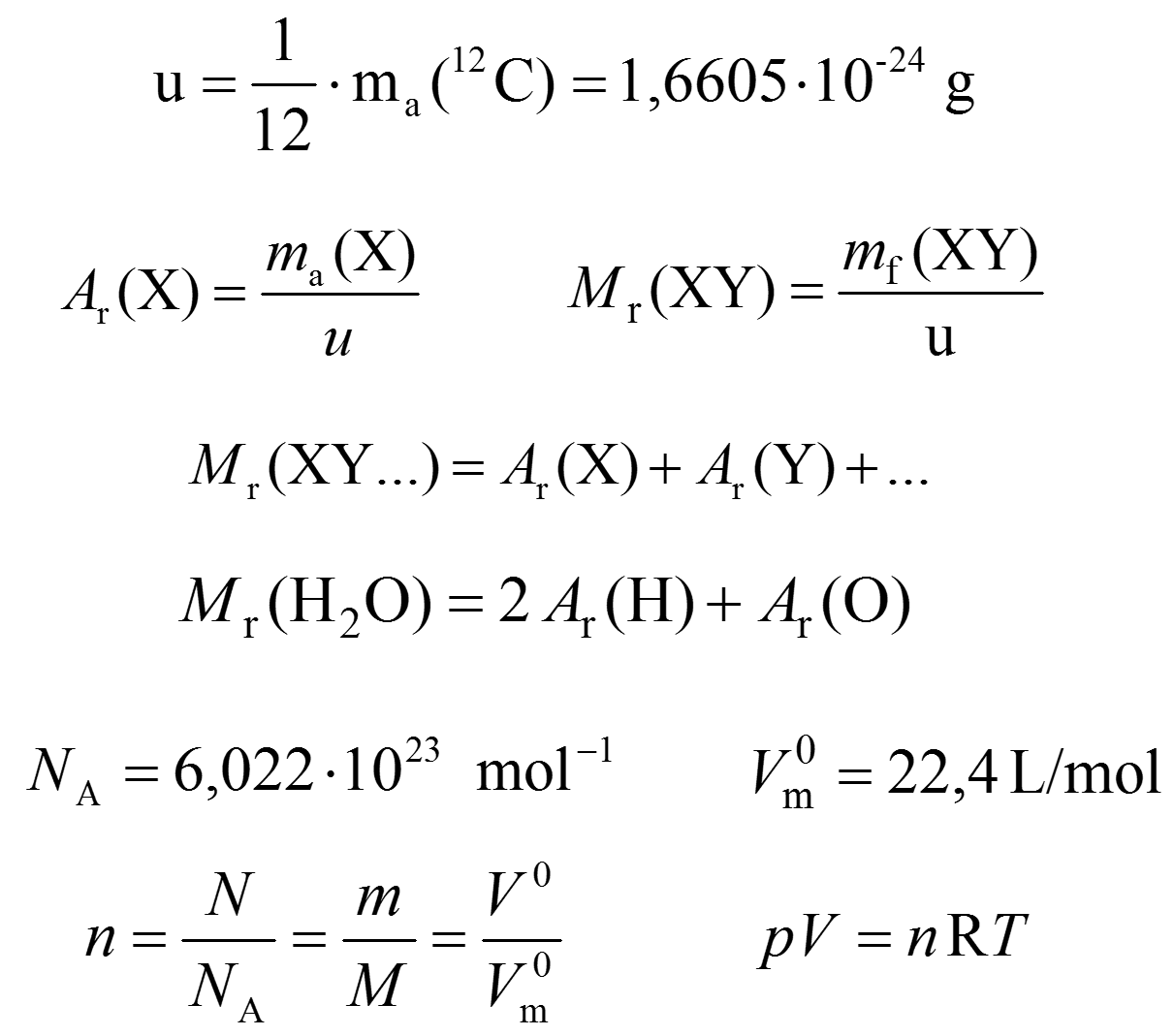 equations